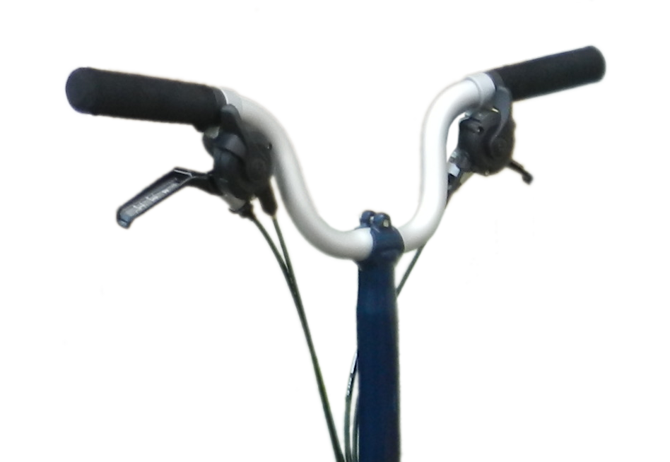 Brompton bicycle "2017"-onwards 'M'-handlebar, with integrated bell+brake+shifter units, with new longer handlebar stem in "Tempest Blue" colour. This is a cut-off from a large number which has too much background noise for directly illustrating the topic. The added alpha (mask) channel surrounds just the handlebar and cabling. The original image remains underneath if for modification/provenance purposes.